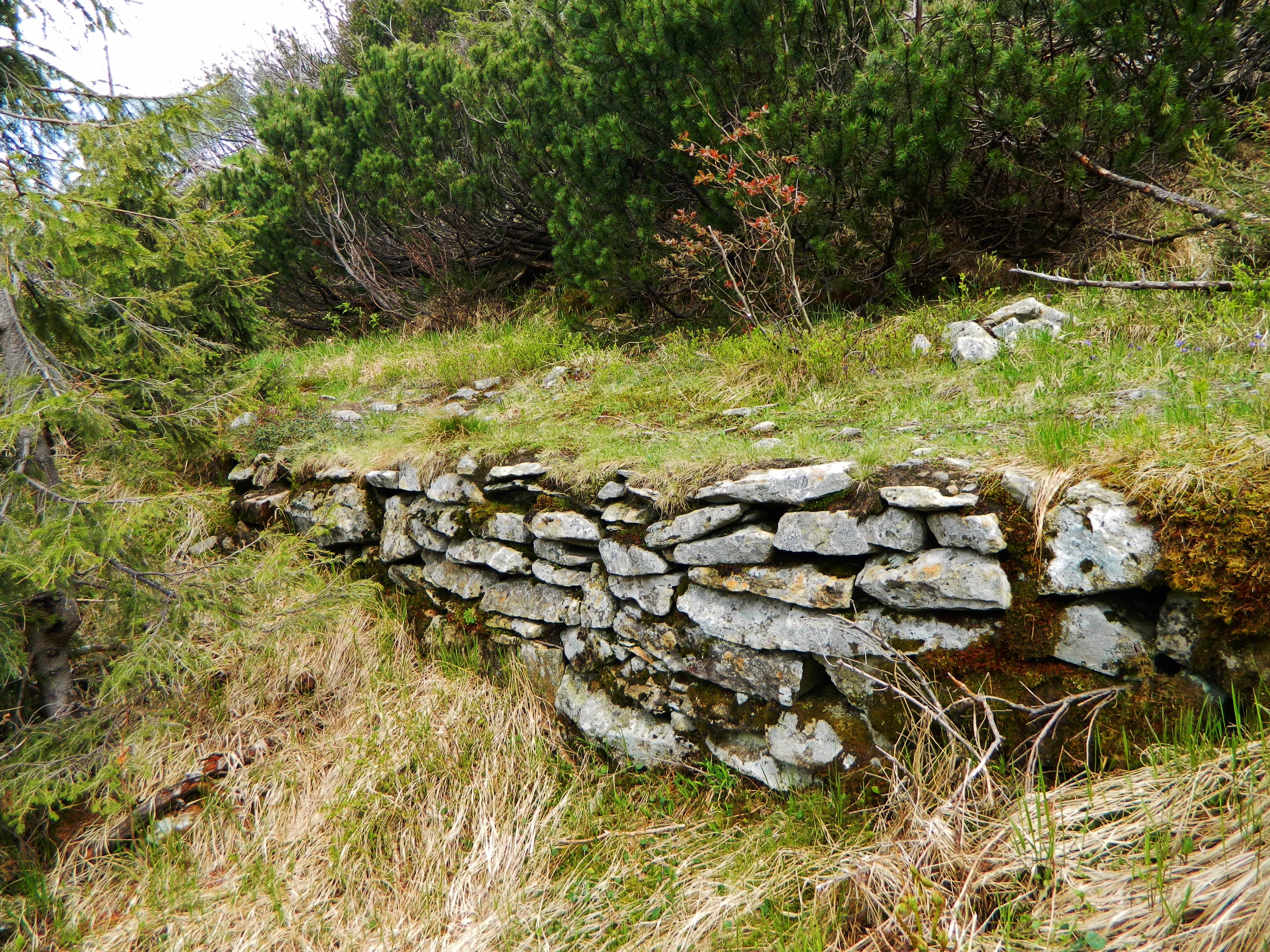 Pinus mugo is taking over the old road from Austro-Hungarian times, northern slope of Pozhtzhevska, Chornohora range